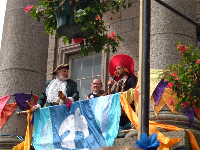 created by Dennis Axford June 2005